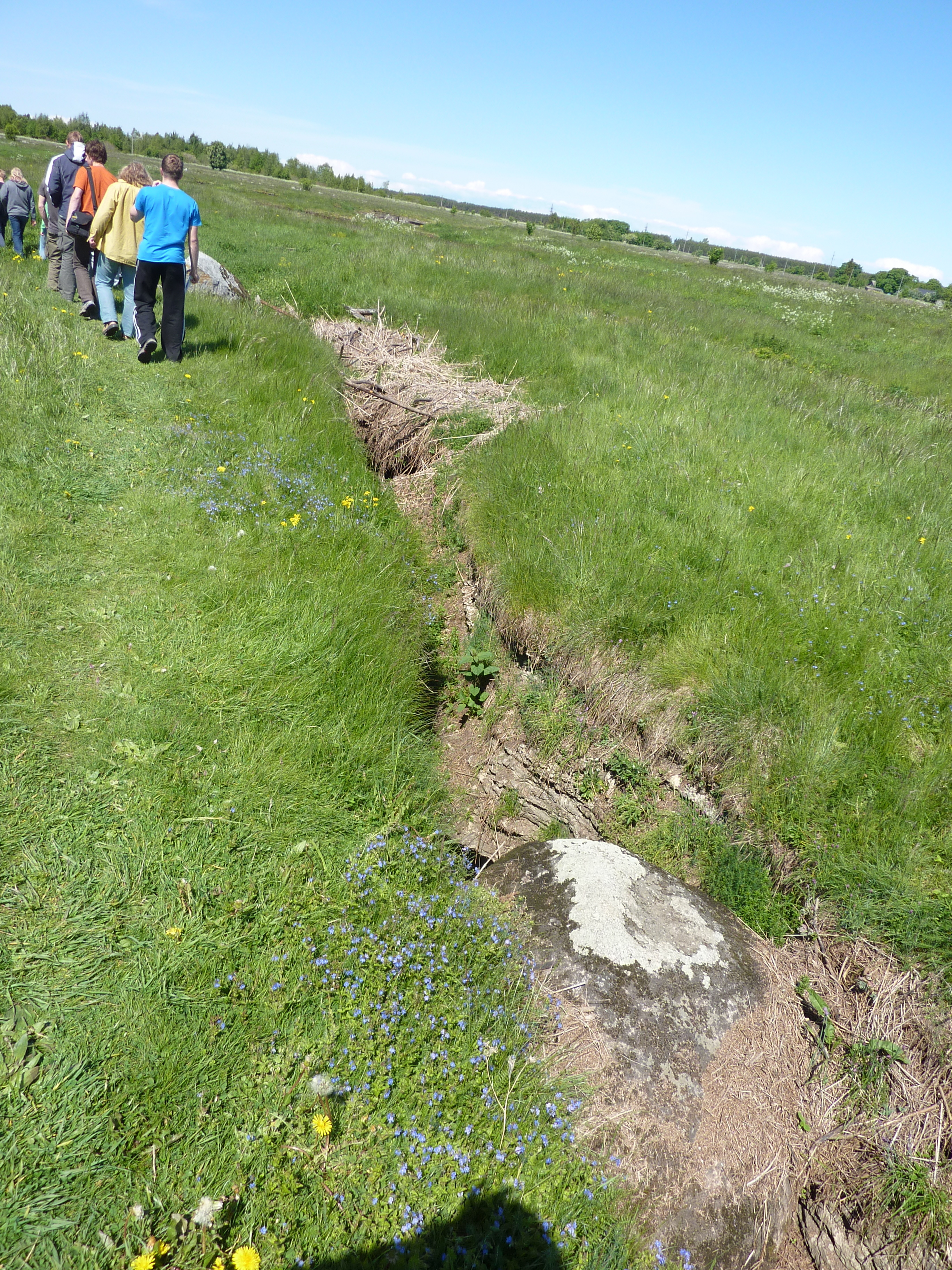 Karst fault in Kostivere karstfield, Estonia